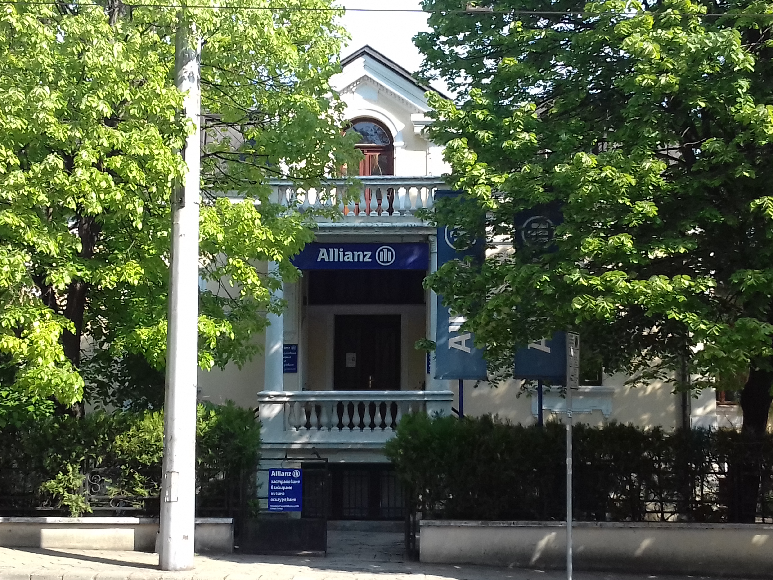 Dosyo Valev house in Stara Zagora, Bulgaria.